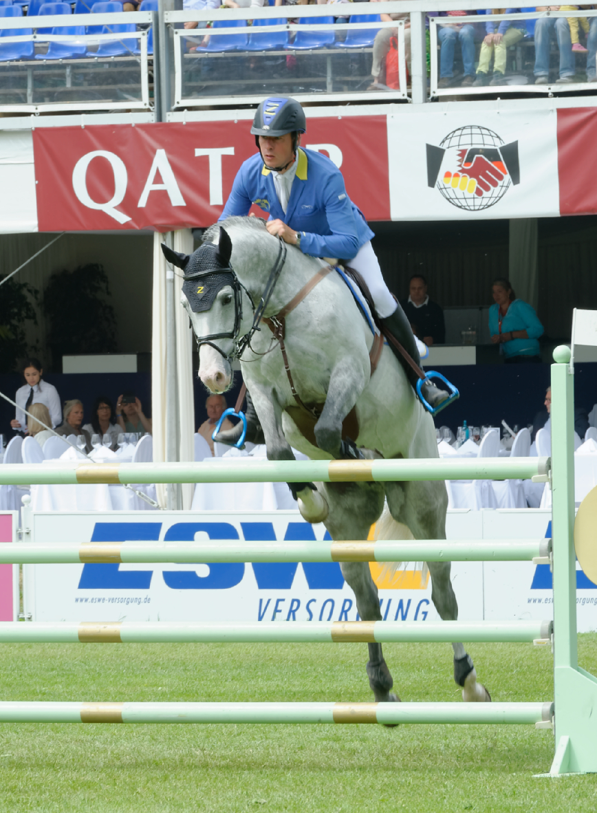 CSIYH* int. Springprüfung nach Strafpunkten und Zeit Internationales Pfingstturnier Wiesbaden 2015 The making of this document was supported by the Community-Budget of Wikimedia Germany.